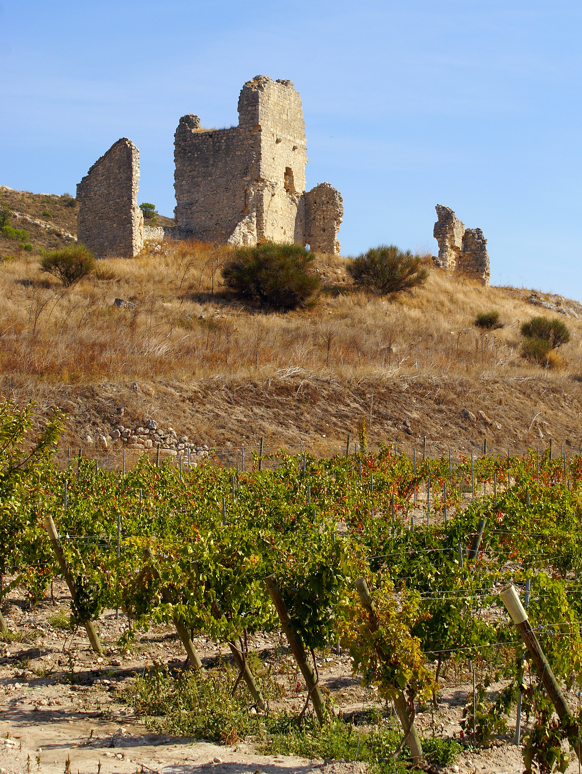 Ruins of the church of St. Peter of Aldealbar, Valladolid, Spain. Vineyards can be seen on the foreground.